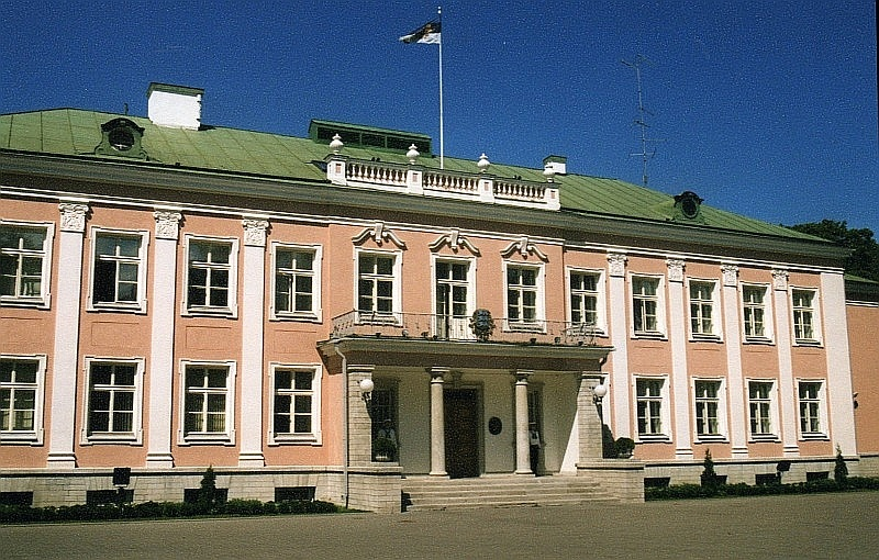 The building of the Office of the President of the Republic of Estonia at Kadriorg, designed by architect Alar Kotli.